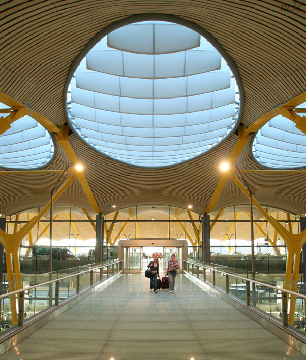 Entering Terminal 4 at Madrid Barajas Airport , to the check-in area.